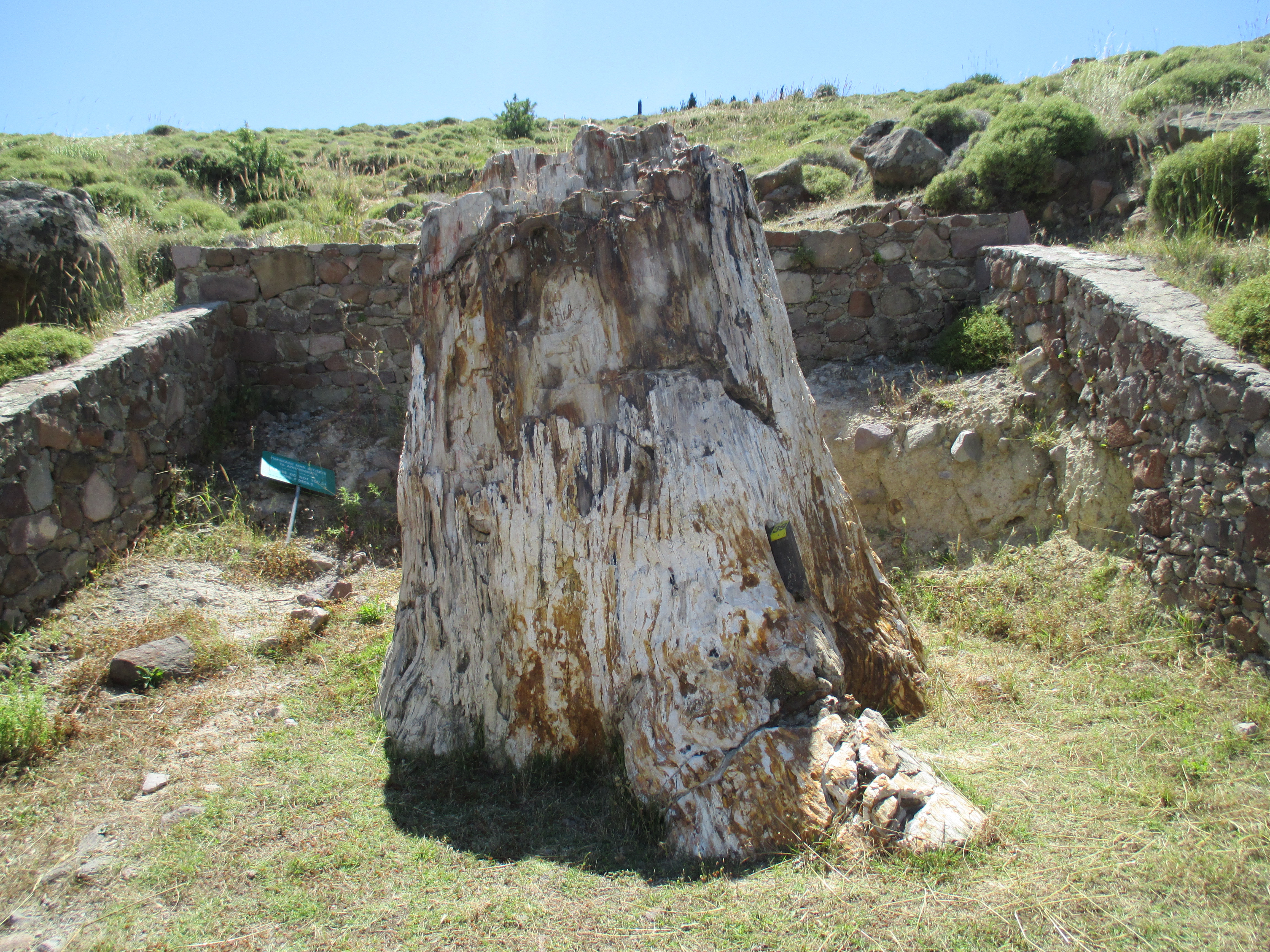 Petrified forest of Lesbos (Lesvos), Greece.